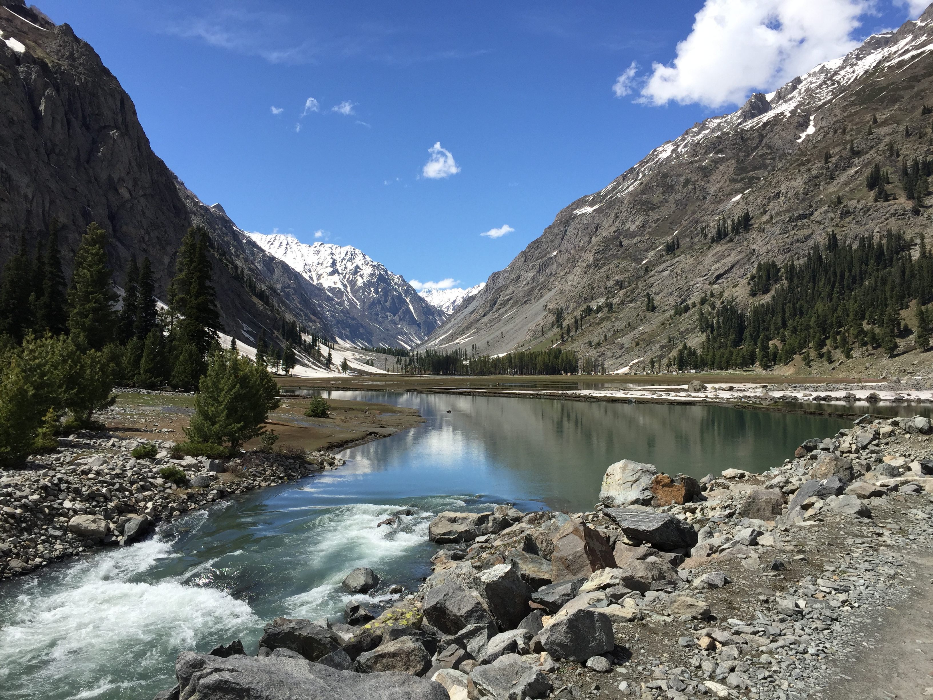 Maodant Lake Kallam Valley KPK Pakistan